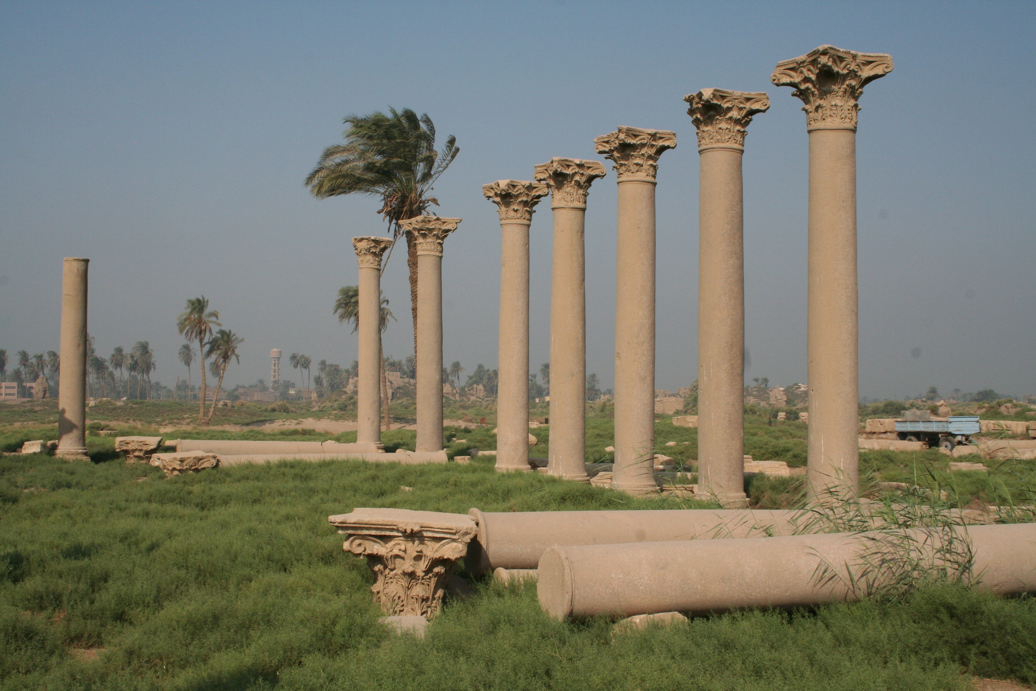 Ruins of the roman basilica at Hermopolis Magna